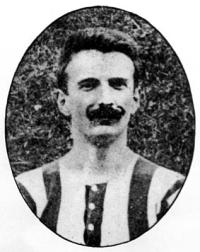 Emile Andrieu (1881-1955)